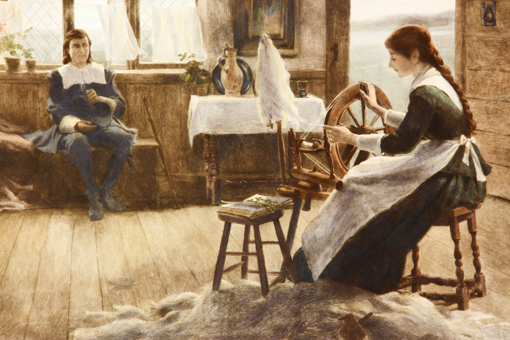 Engraving by James S. King (1886) after The Courtship of Miles Standish (1884) by Charles Yardley Turner.